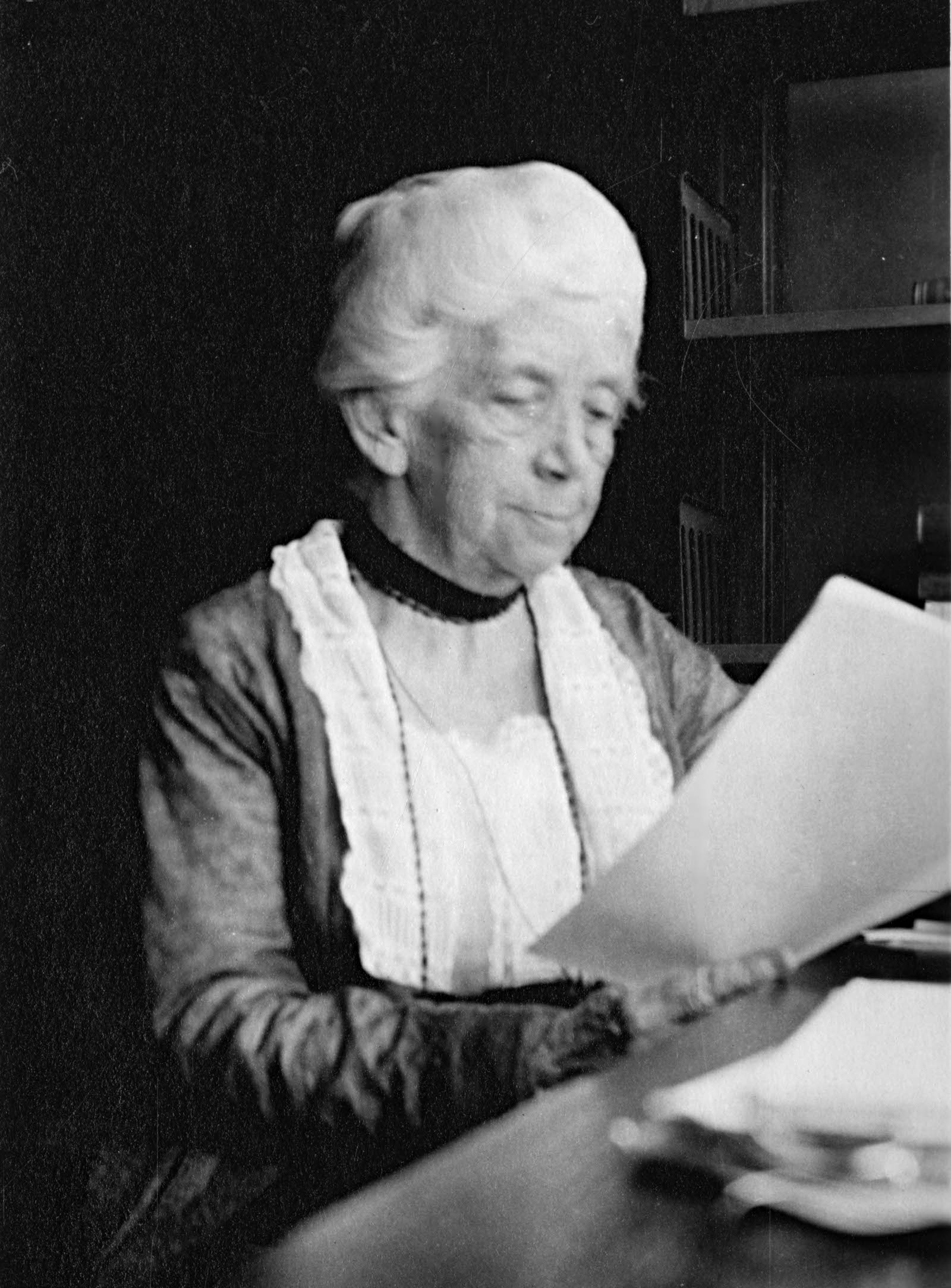 Creator: Scott, Julian P Subject: Ladd-Franklin, Christine 1847-1930 Vassar College Type: Black-and-white photographs Topic: Mathematics Psychology Local number: SIA Acc. 90-105 [SIA2008-5008] Summary: Psychologist and logician Christine Ladd-Franklin (1847-1930) graduated from Vassar College in 1869 where she studied linguistics and physics. After graduation, as women were not granted much access to labs and observatories, she turned to mathematics, which did not require any apparatus Cite as: Acc. 90-105 - Science Service, Records, 1920s-1970s, Smithsonian Institution Archives Persistent URL: Repository:Smithsonian Institution Archives View more collections from the Smithsonian Institution.